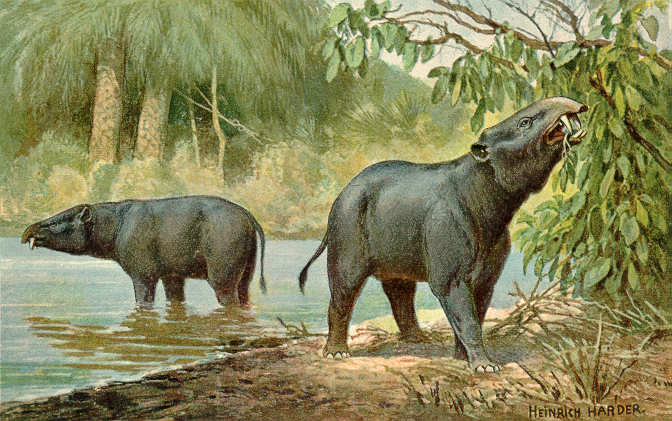 Moeritherium.